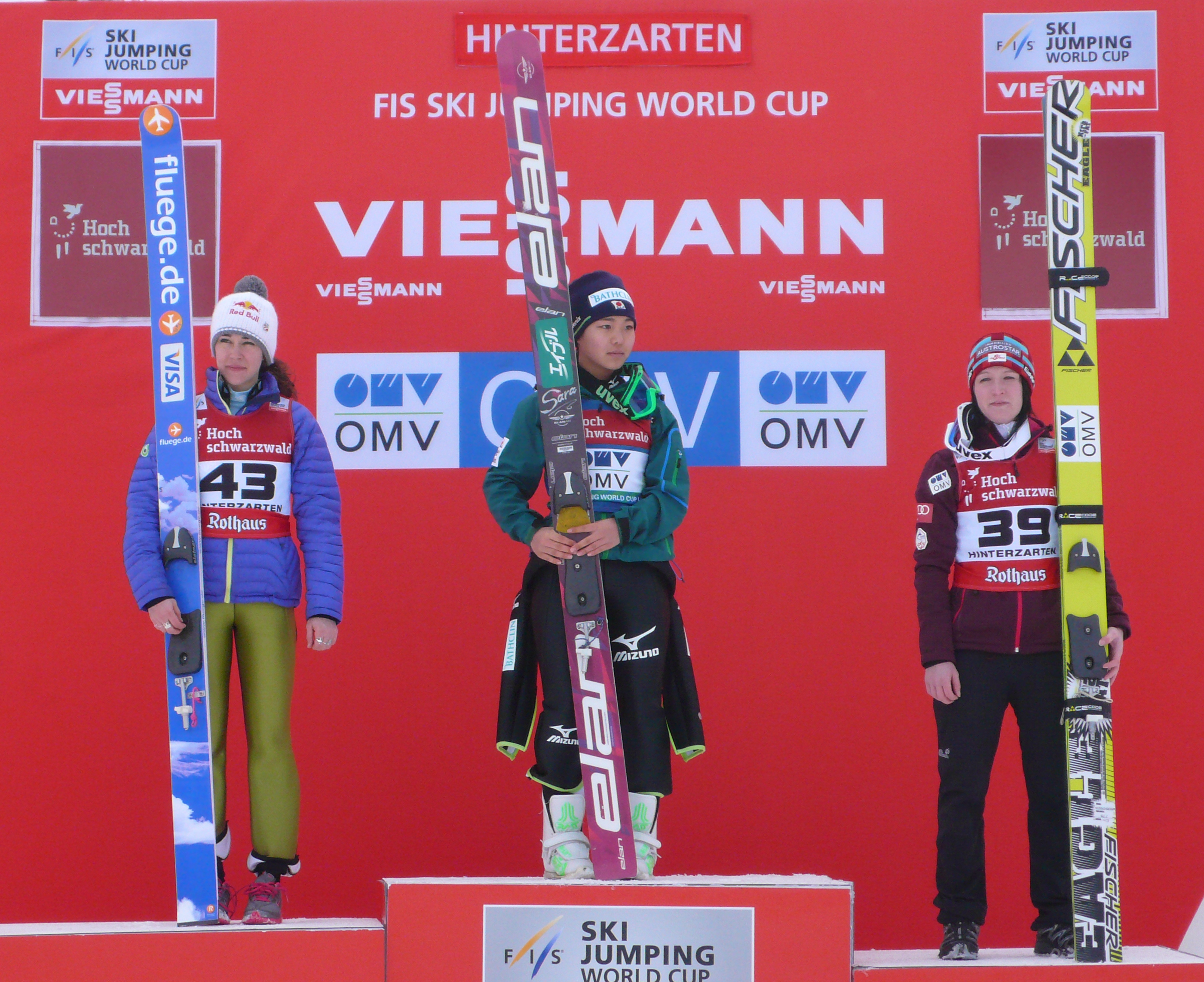 1: Sara Takanashi, 2: Sarah Hendrickson,, 3: Jacqueline Seifriedsberger: podium of Female Skijumping Worldcup in Hinterzarten on the 2013-01-13.